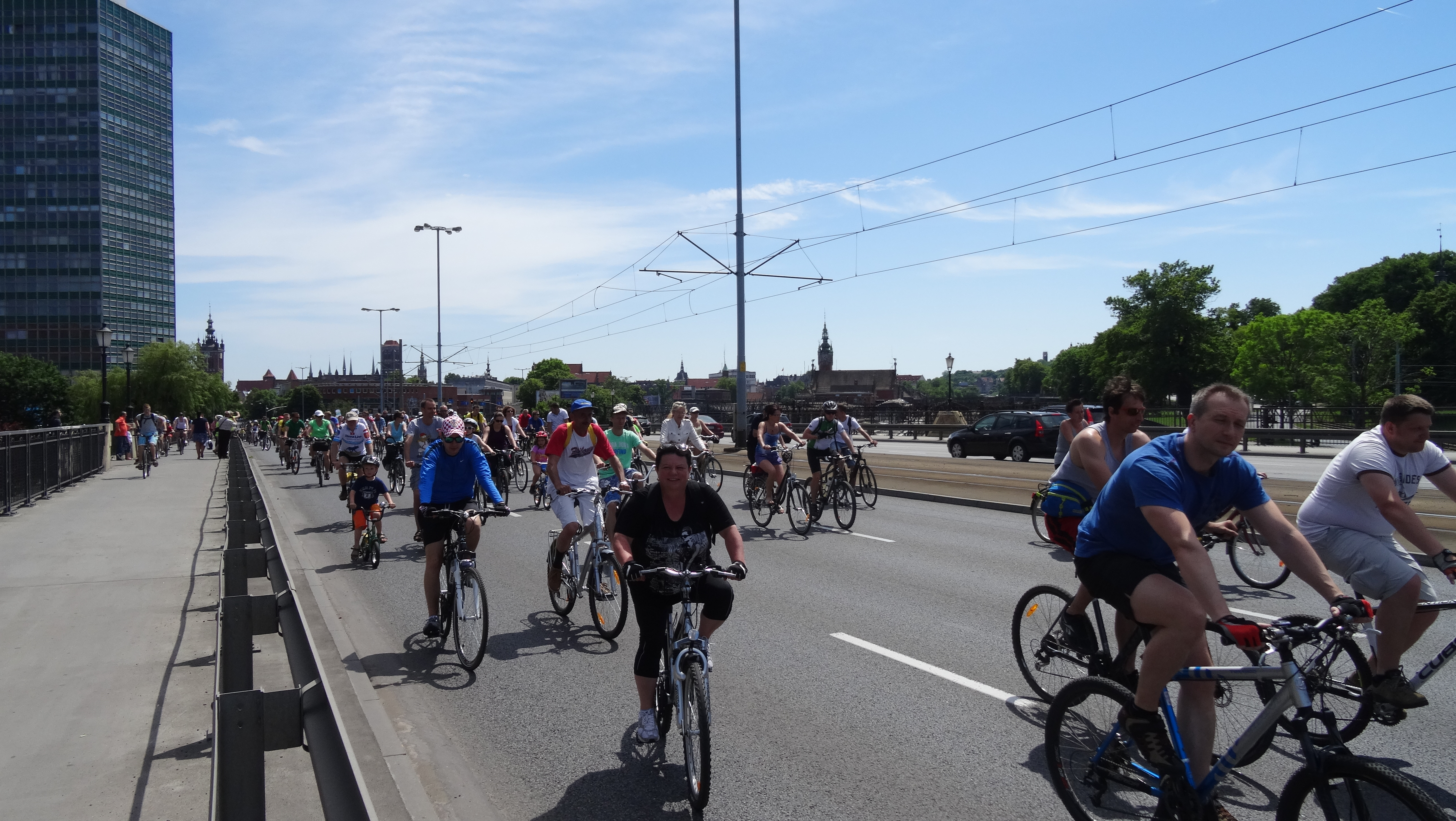 Gdansk - cycling movement 2014